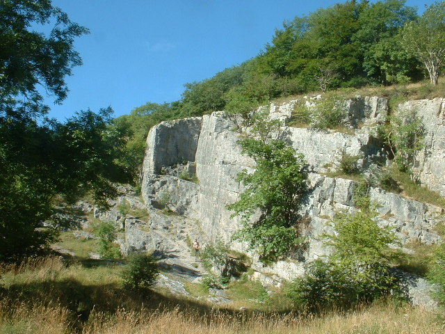 Pot Hole Quarry. Near Llanferres. A popular evening climbing venue, as it faces west and catches the evening sun